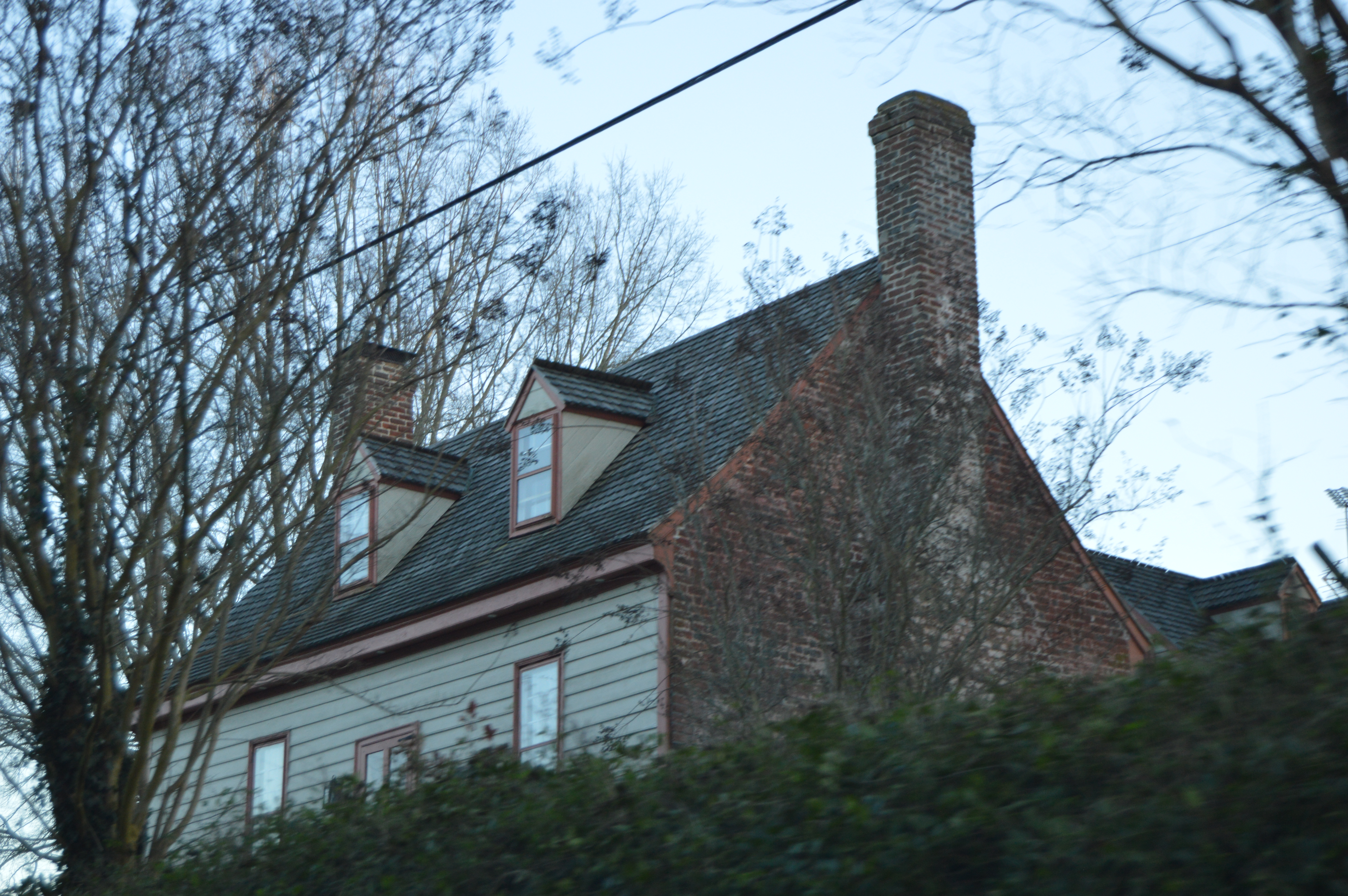 Front and western side of Arbuckle Place, located on Atlantic Road at Assawoman in Accomack County, Virginia, United States. Built in 1774, it is listed on the National Register of Historic Places.